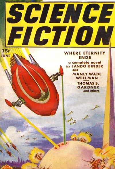 June 1939 cover of Science Fiction magazine volume 1, number 2.